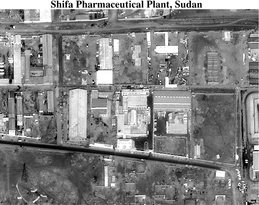 Photograph of the Shifa Pharmaceutical Plant, Sudan, used by Secretary of Defense William S. Cohen and Gen. Henry H. Shelton, U.S. Army, chairman, Joint Chiefs of Staff, to brief reporters in the Pentagon on the U.S. military strike on a chemical weapons plant in Sudan and terrorist training camps in Afghanistan on Aug. 20, 1998.